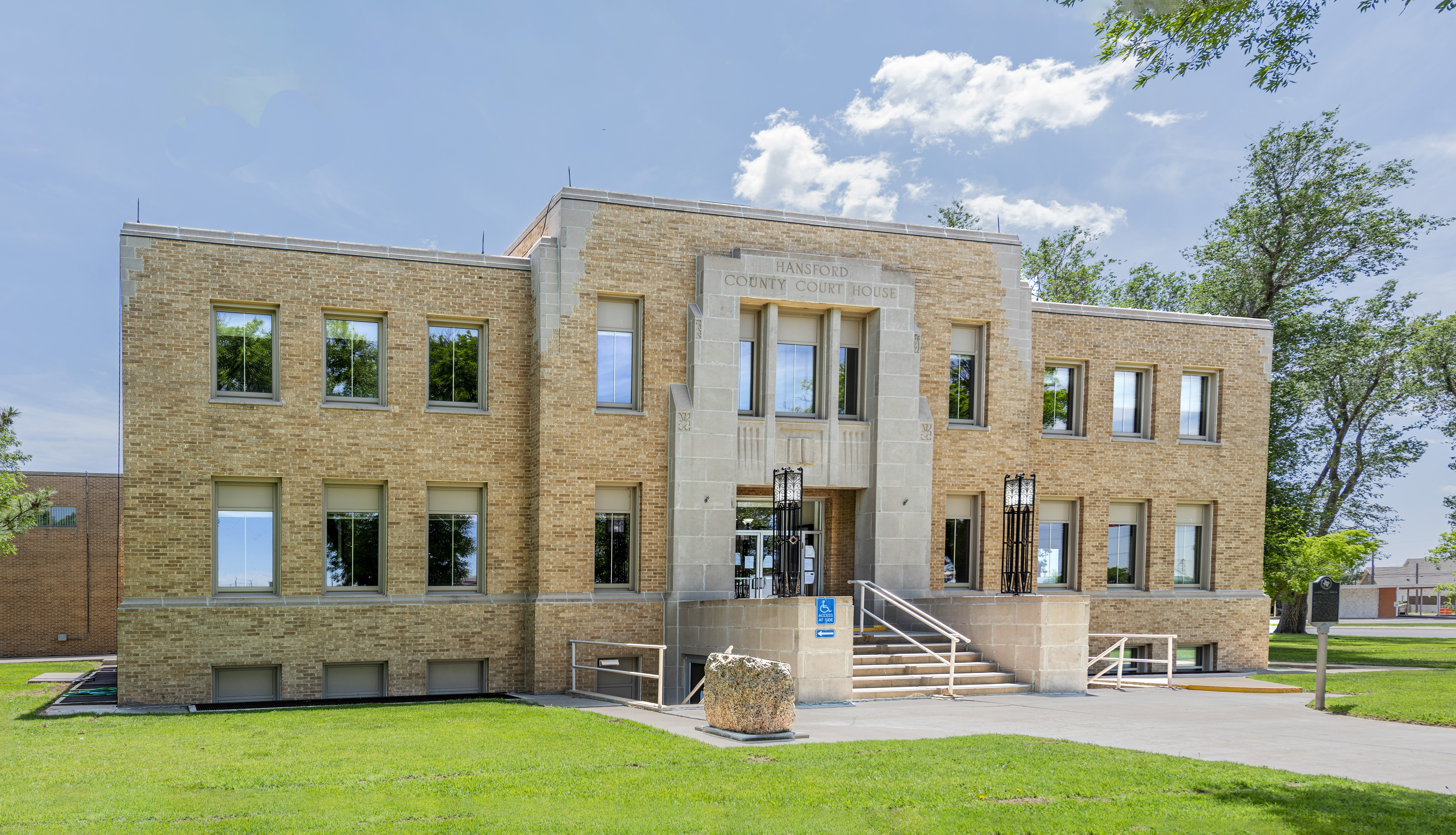 Image of the Hansford County, Texas courthouse located in Spearman, Texas. Taken in May 2020.